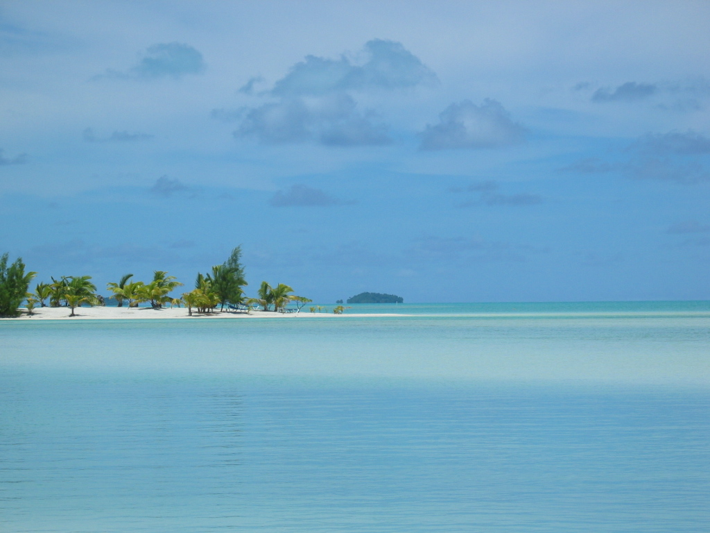 The lagoon of Aitutaki, Cook Islands, seen from Samade Beach